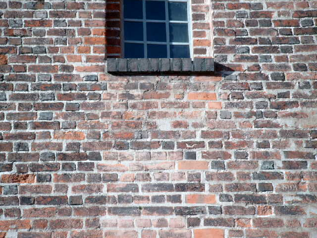 Section of brick wall of Sankt Olai Kirke, Helsingør (Helsinore), Denmark. A special feature is the in Danish so-called død murer, in this case a bottle laid between the bricks (the bottle neck can be seen in 3 stones from below and approximately in the middle). Such features can be laid if the mason wasn't satisfied with the employer